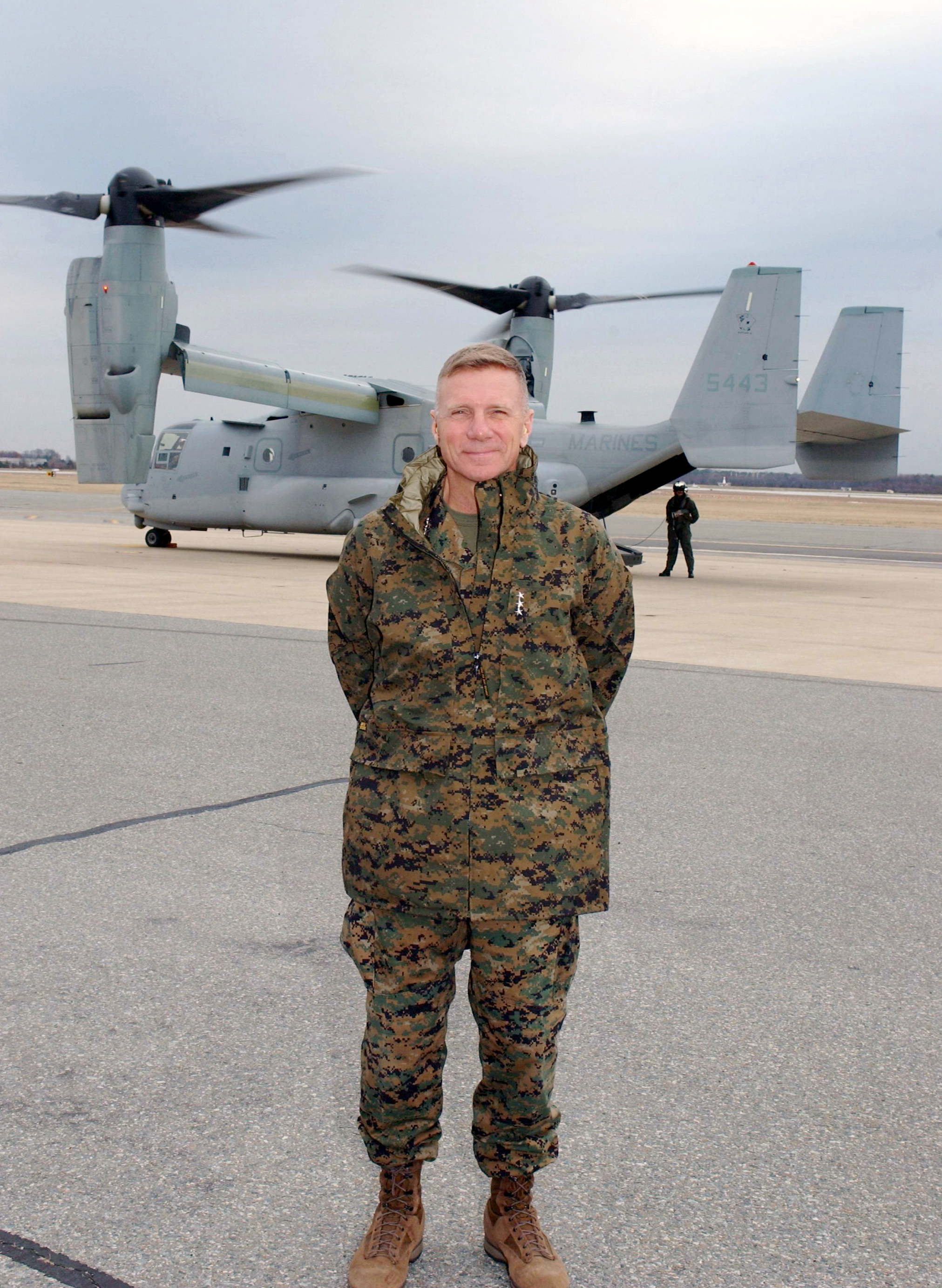 Naval Air Station Patuxent River, Md. (Jan. 8, 2003) -- General Michael W. Hagee, new commandant of the marine corps, takes the first VIP flight in a V-22 "Osprey" since the aircraft's return to flight in late May of last year. The 20 minute flight was conducted from Naval Air Station, Patuxent River, Maryland, headquarters for the V-22 Integrated Test Team.